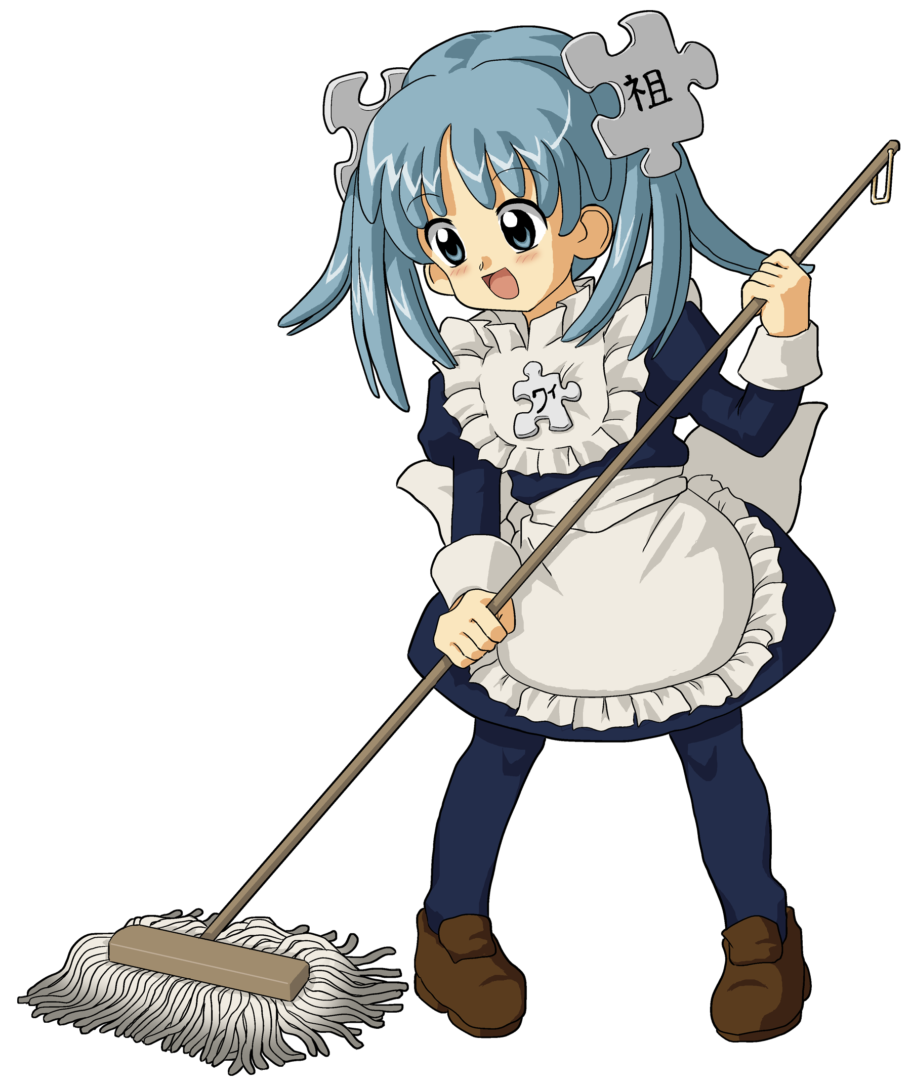 Wikipe-tan mopping, drawn by Kasuga~commonswiki. It's mascot sample for Wikiproject Anime and Manga.